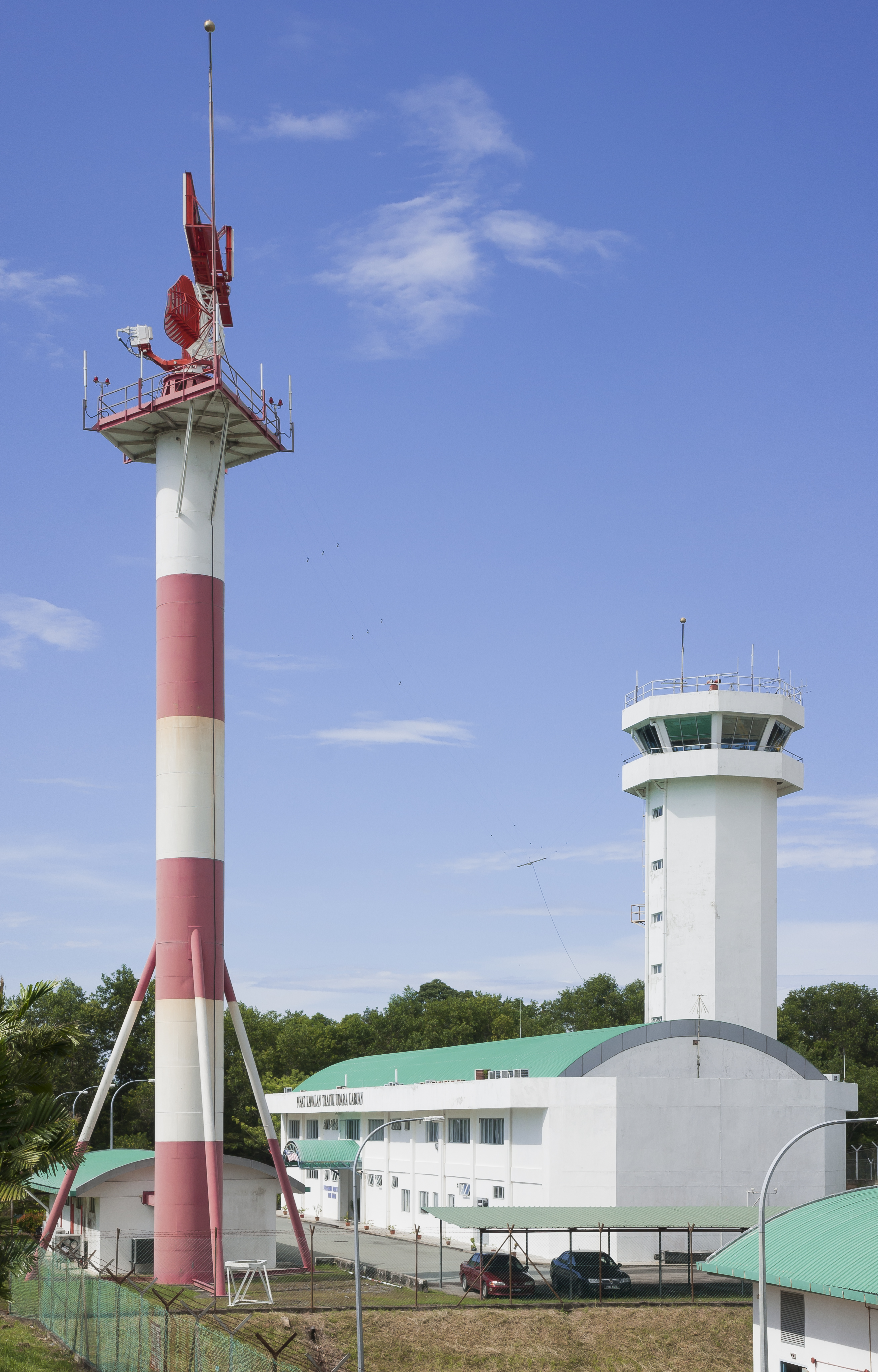 Labuan, Malaysia: Labuan Airport; Control Tower and Air traffic control radar